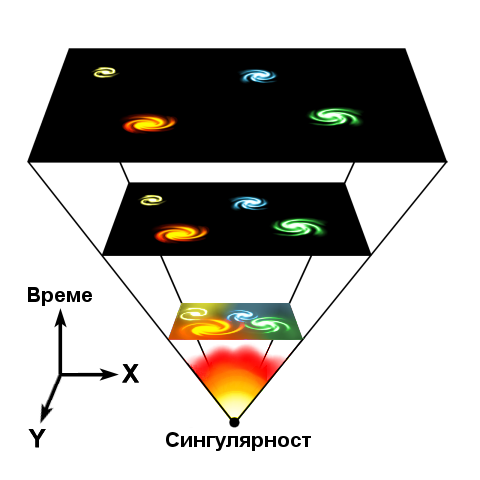 Illustration of the expansion of the Universe after the Big bang. In Bulgarian.